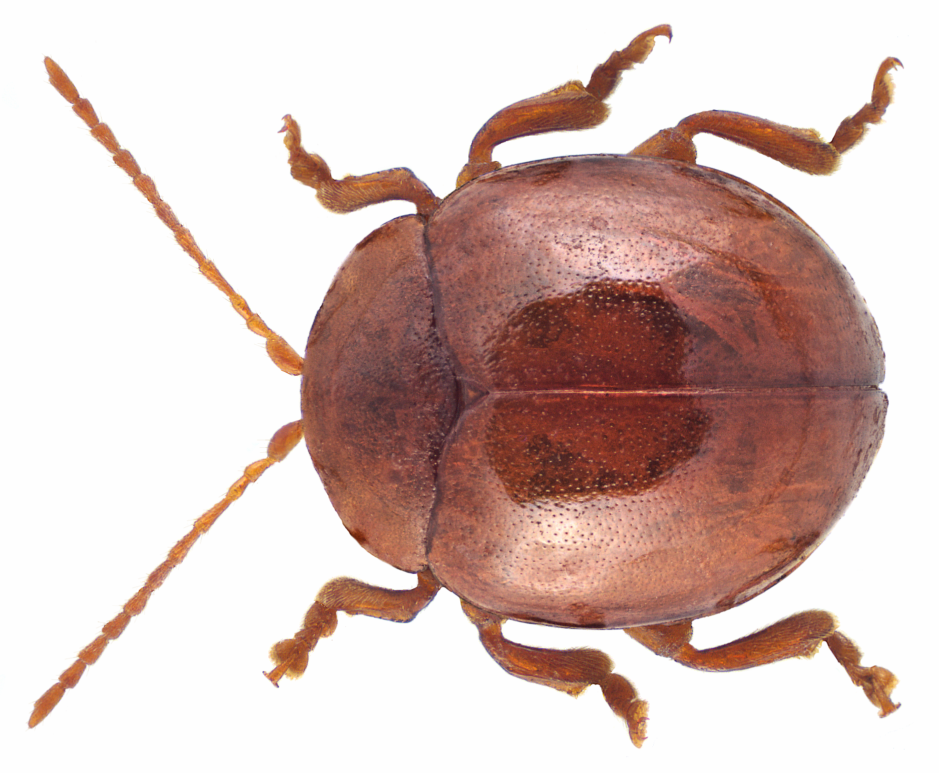 Family: Chrysomelidae Size: 4,4 mm (3,5 to 5,0 mm) Origin: Southern East Europe, Northern Italy, Switzerland, Germany (Saxony, Bavaria) Ecology: lives on Clematis species Location: Germany, Bavaria, Mittelfranken, Aub leg.det. U.Schmidt,25.VI.1971 Photo: U.Schmidt, 2015